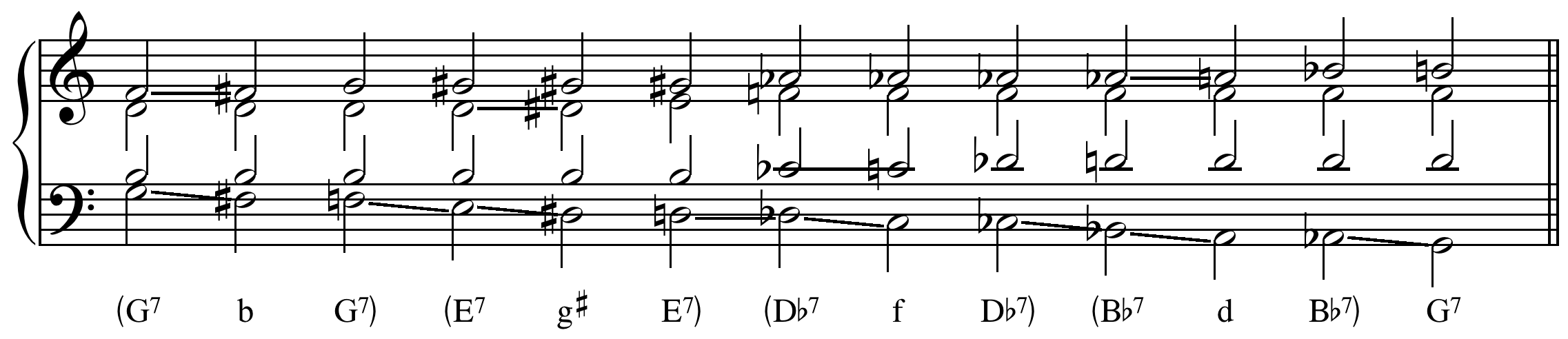 Omnibus progression. Created by Hyacinth (talk) 15:07, 1 September 2008 in Sibelius.